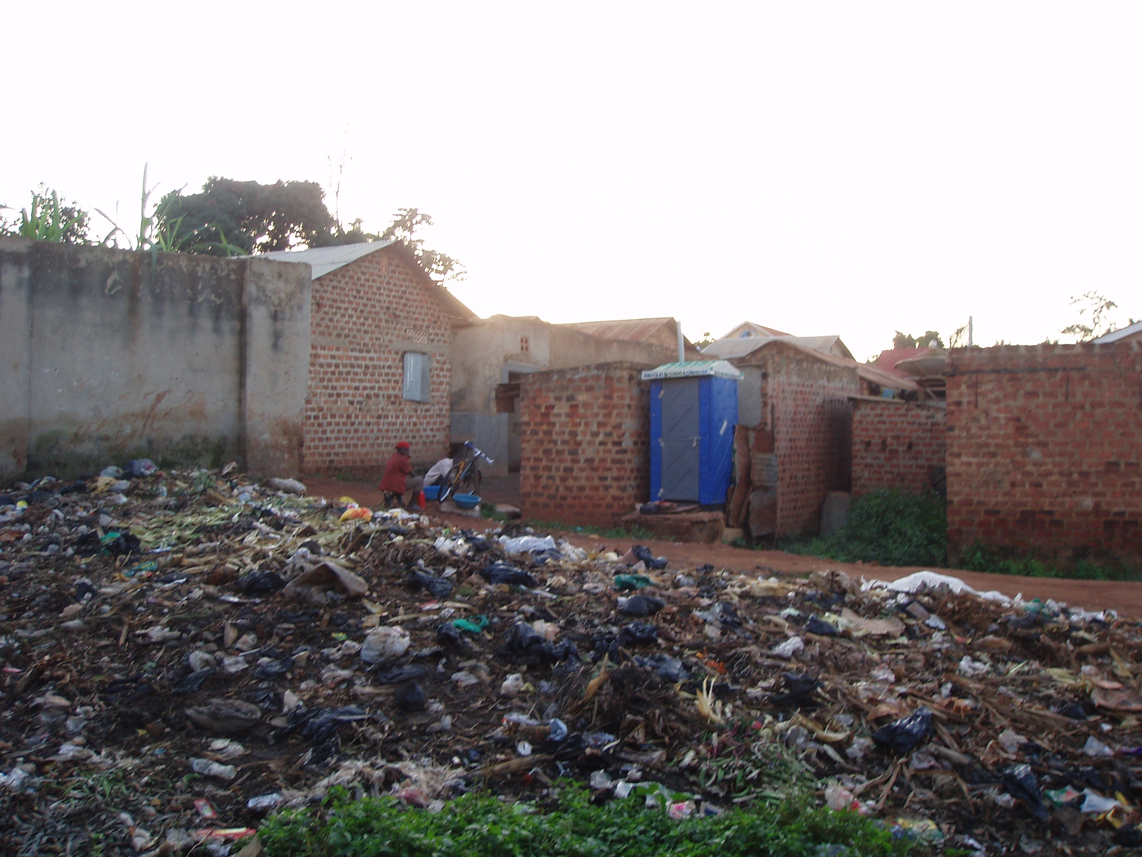 Solid waste in Mulago, Kampala. In those heaps of solid waste which are piling up nearly everywhere in the slum areas, you often find "Kadingos", the flying toilets. Besides that the solid waste consists of a variety of plastics (bottles, packaging and plastic bags) and organic waste. There are efforts to recycle plastic bottles. The company "Plastic Recycling Industries" is active in that business. About 75% of the weight of Kampala's waste are organic (Kampala Integrated Environmental Management Project, 2009). The Kampala City Council has a fleet of several waste trucks which transport waste irregularly to a landfill. Another very common solution for solid waste management is the incineration of smaller heaps in the slum areas.